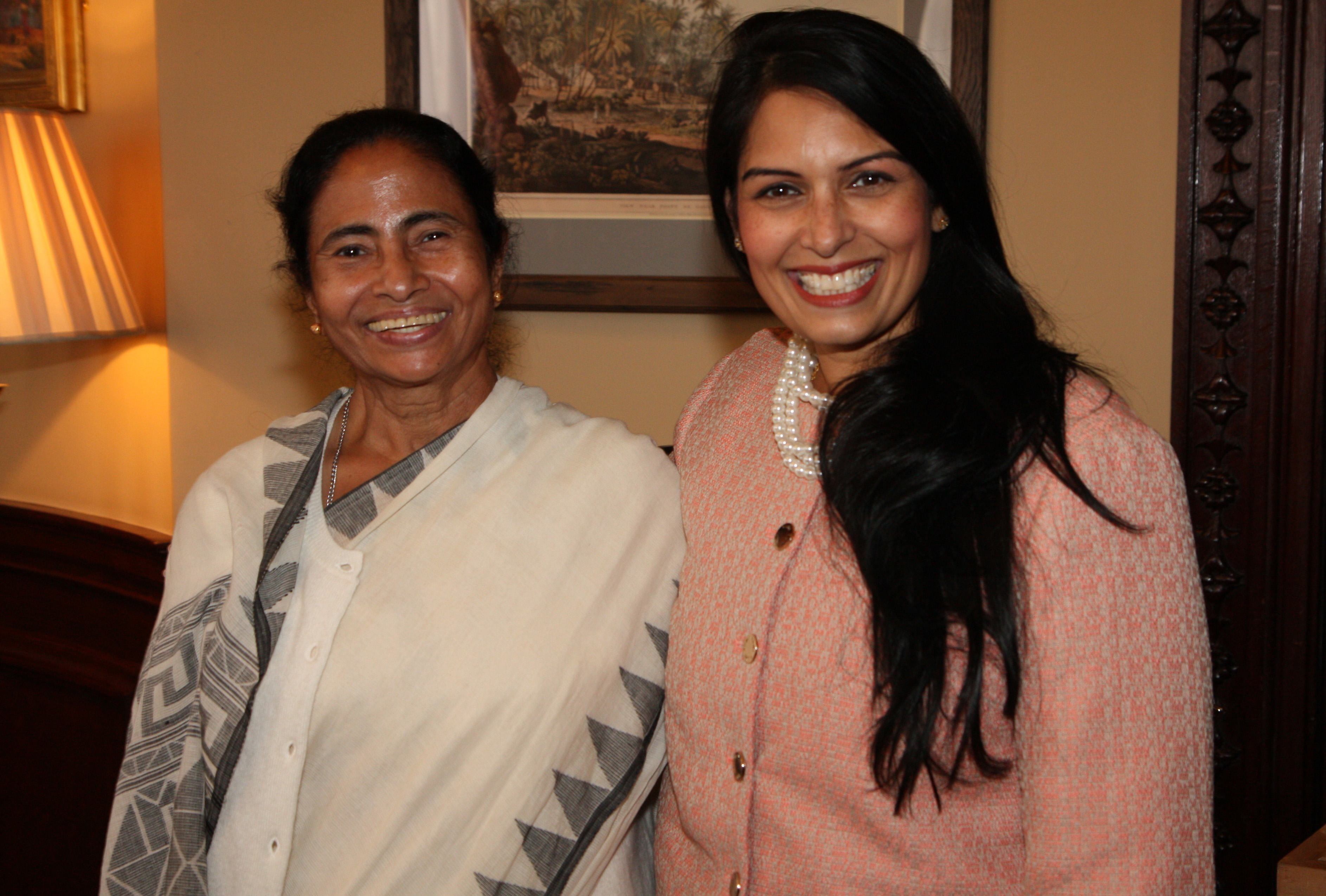 Priti Patel, Minister for Employment and UK Indian Diaspora Champion meeting Mamata Banerjee, Chief Minister Government of West Bengal in London, 27 July 2015.